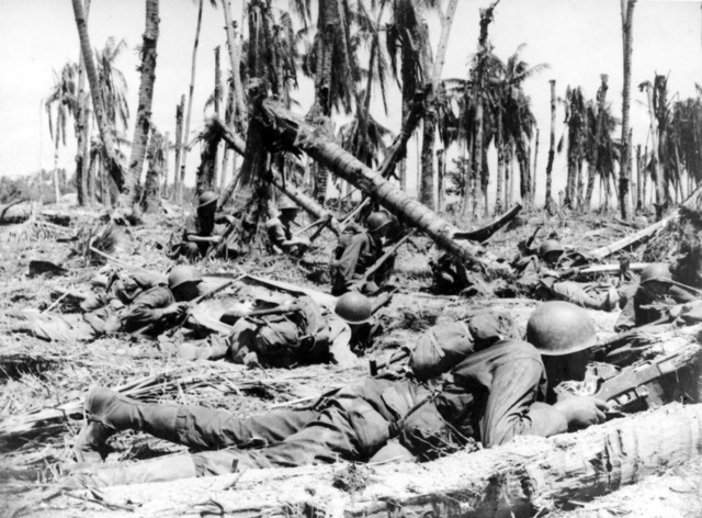 United States troops on the coconut palm shattered foreshore of Wakde Island.